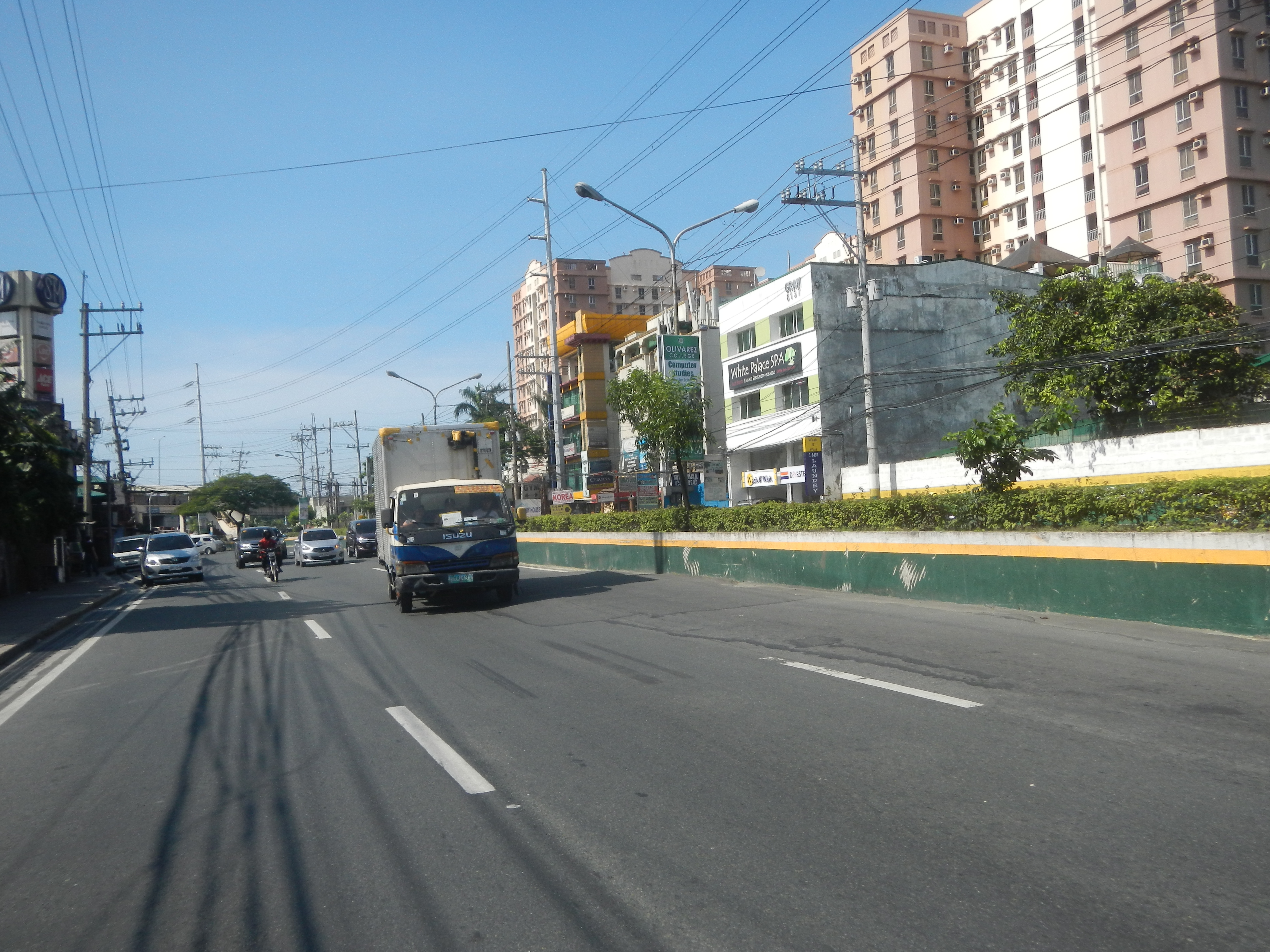 NAIA Road and Dr. A. Santos Avenue (San Isidro & San Antonio, Parañaque City section) Dr. A. Santos Avenue Legislative districts of Parañaque 1st District, Districts and barangays Barangays San Antonio 14°27'56"N 121°1'52"E San Isidro 14°28'1"N 121°0'40"E San Dionisio 14°29'2"N 120°59'33"E from Baclaran, towards La Huerta 14°29'50"N 120°59'43"E beside Santo Niño 14°30'14"N 121°0'11"E Tambo 14°30'59"N 120°59'20"E Parañaque City along Elpidio Quirino Avenue (Note: Judge Florentino Floro, the owner, to repeat, Donor Florentino Floro of all these photos hereby donate gratuitously, freely and unconditionally Judge Floro all these photos to and for Wikimedia Commons, exclusively, for public use of the public domain, and again without any condition whatsoever).